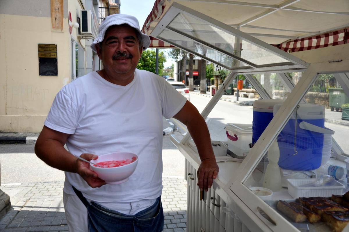 A street vendor selling the traditional Nicosian dessert of "Sulu Muhallebi" in Sarayönü, North Nicosia